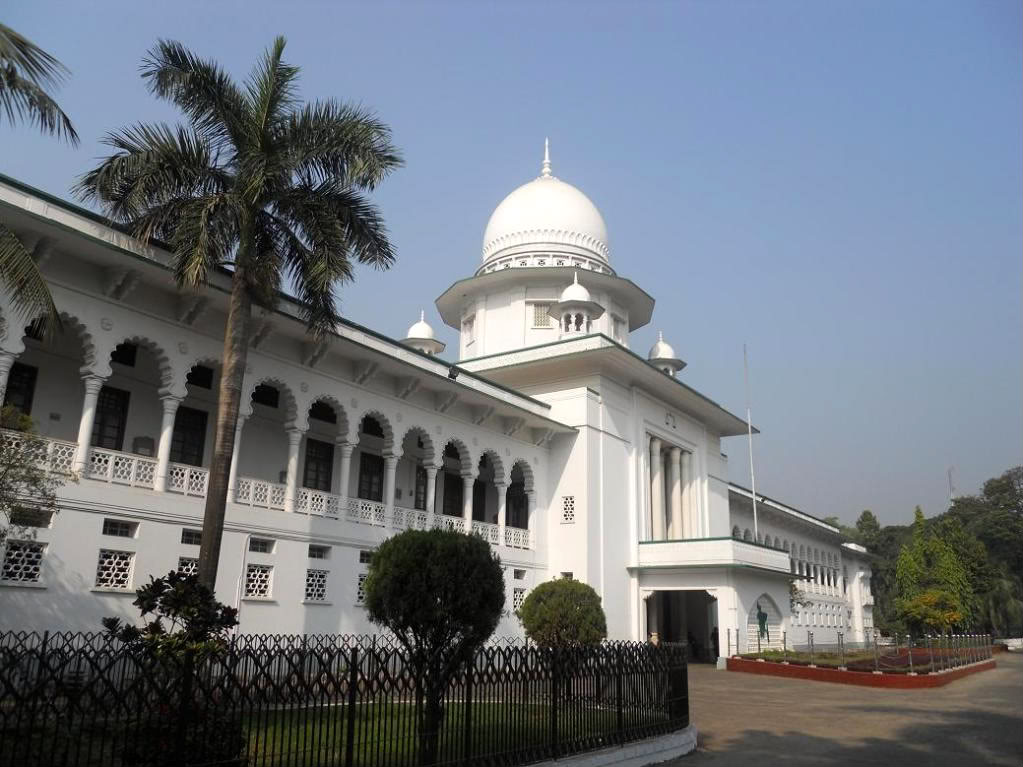 Bangladesh Supreme Court, Dhaka